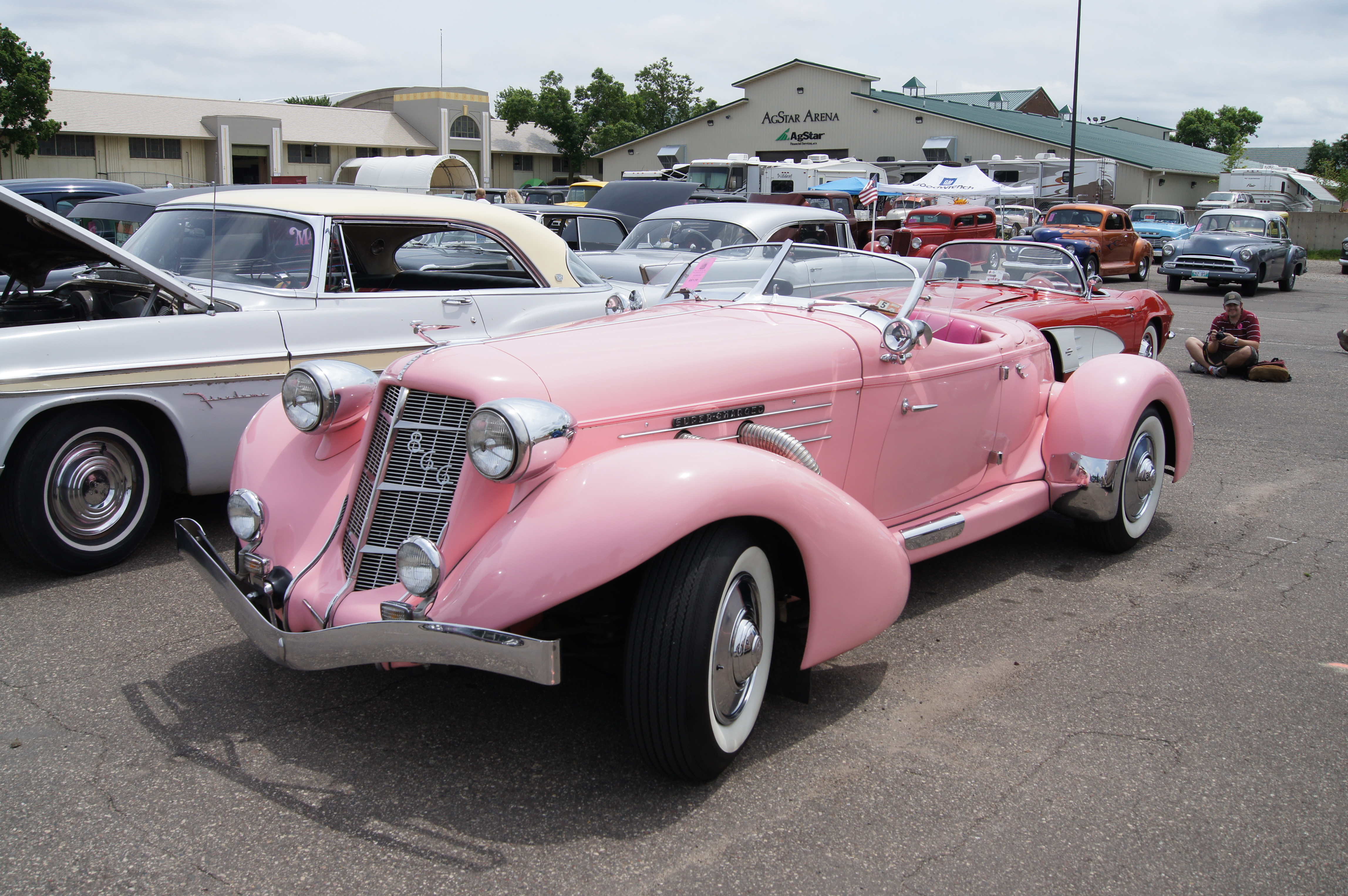 Auburn 866; 1936 Auburn Speedster Replica MSRA “BACK TO THE 50′s” 40th ANNIVERSARY June 21-23, 2013 State Fairgrounds St. Paul Minnesota More Car Pictures